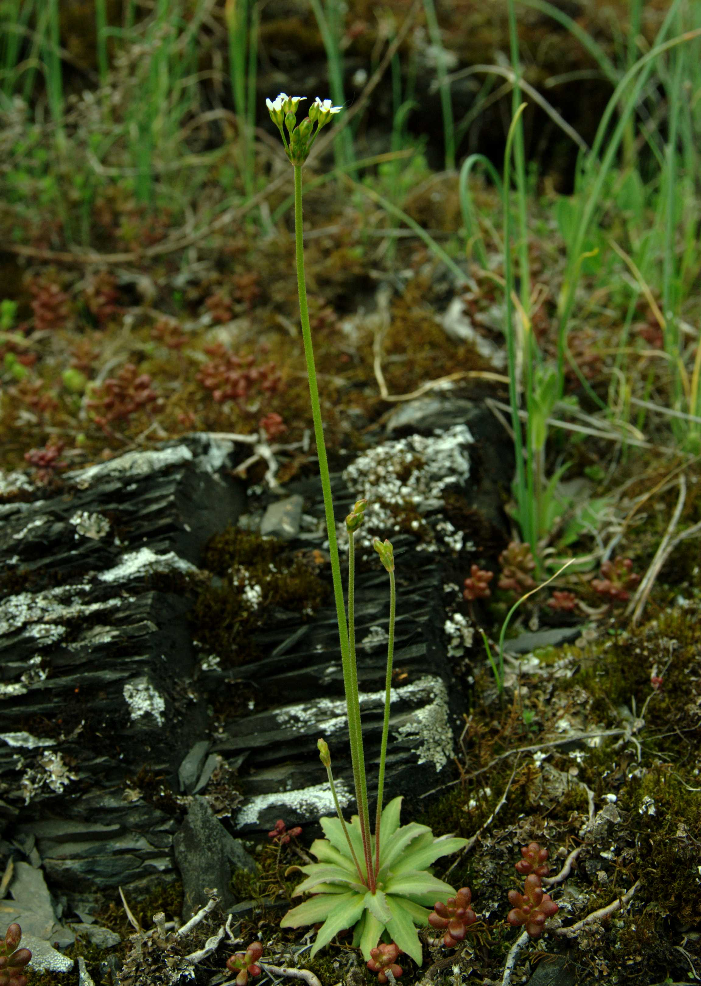 Androsace septentrionalis